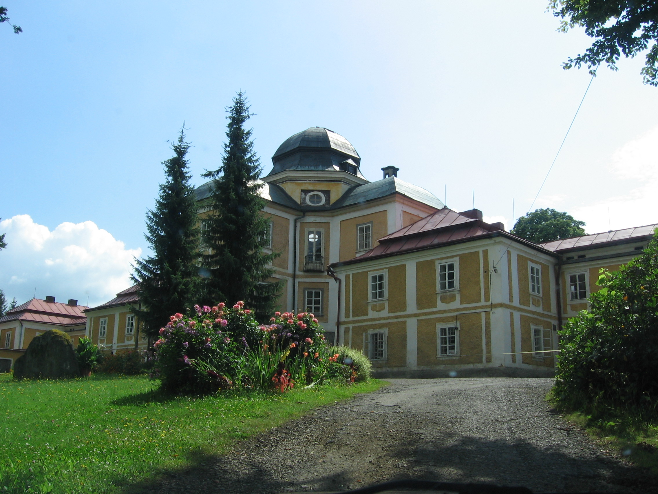 Diana Castle near Nová Ves pod Přimdou